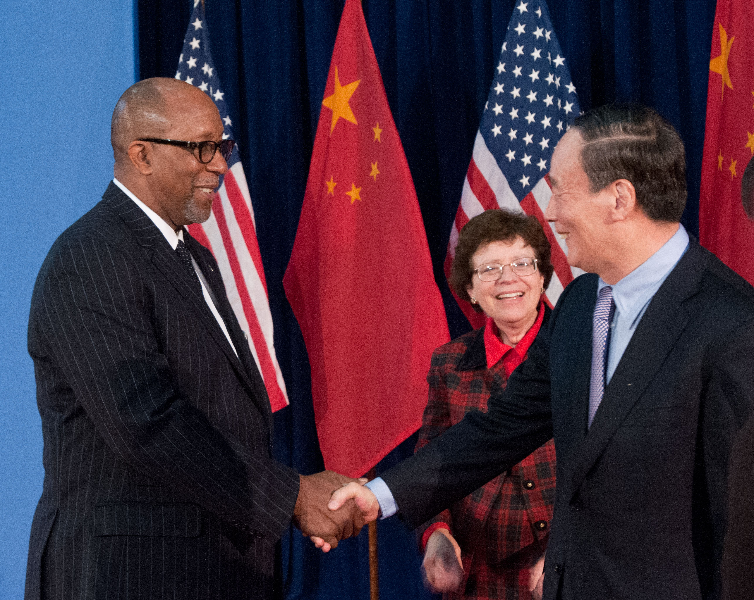 (L to R) U.S. Trade Representative Ron Kirk, and Acting U. S. Commerce Secretary Rebecca Blank representing the U.S. greet Chinese Vice Premier Wang Qishan to the 23rd Session of the U.S. China Joint Commission on Commerce and Trade (JCCT) at the Andrew W. Mellon Auditorium in Washington, D.C. on Wednesday, Dec. 19, 2012. The JCCT holds high-level plenary meetings on an annual basis to review progress made by working groups that focus on a wide variety of trade issues. These working groups meet throughout the year to address topics such as intellectual property rights, agriculture, pharmaceuticals and medical devices, information technology, tourism, commercial law, environment, and statistics. USDA photo by Lance Cheung.